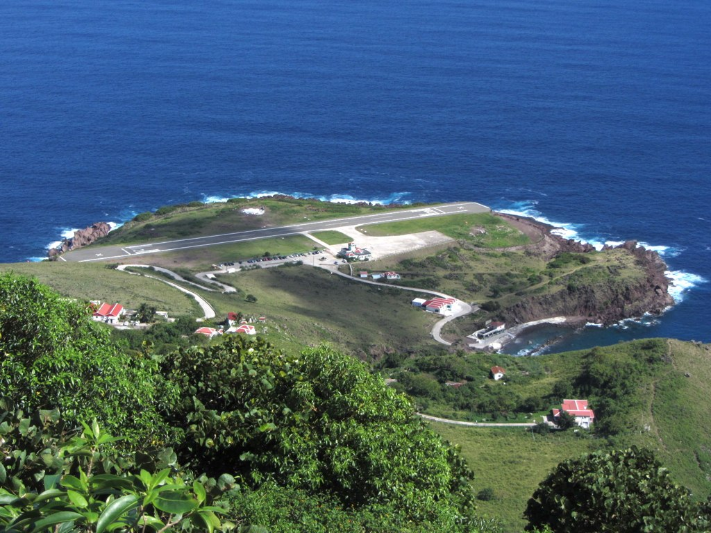 Saba Airport, Most Dangerous Airport in the World, Horizontal